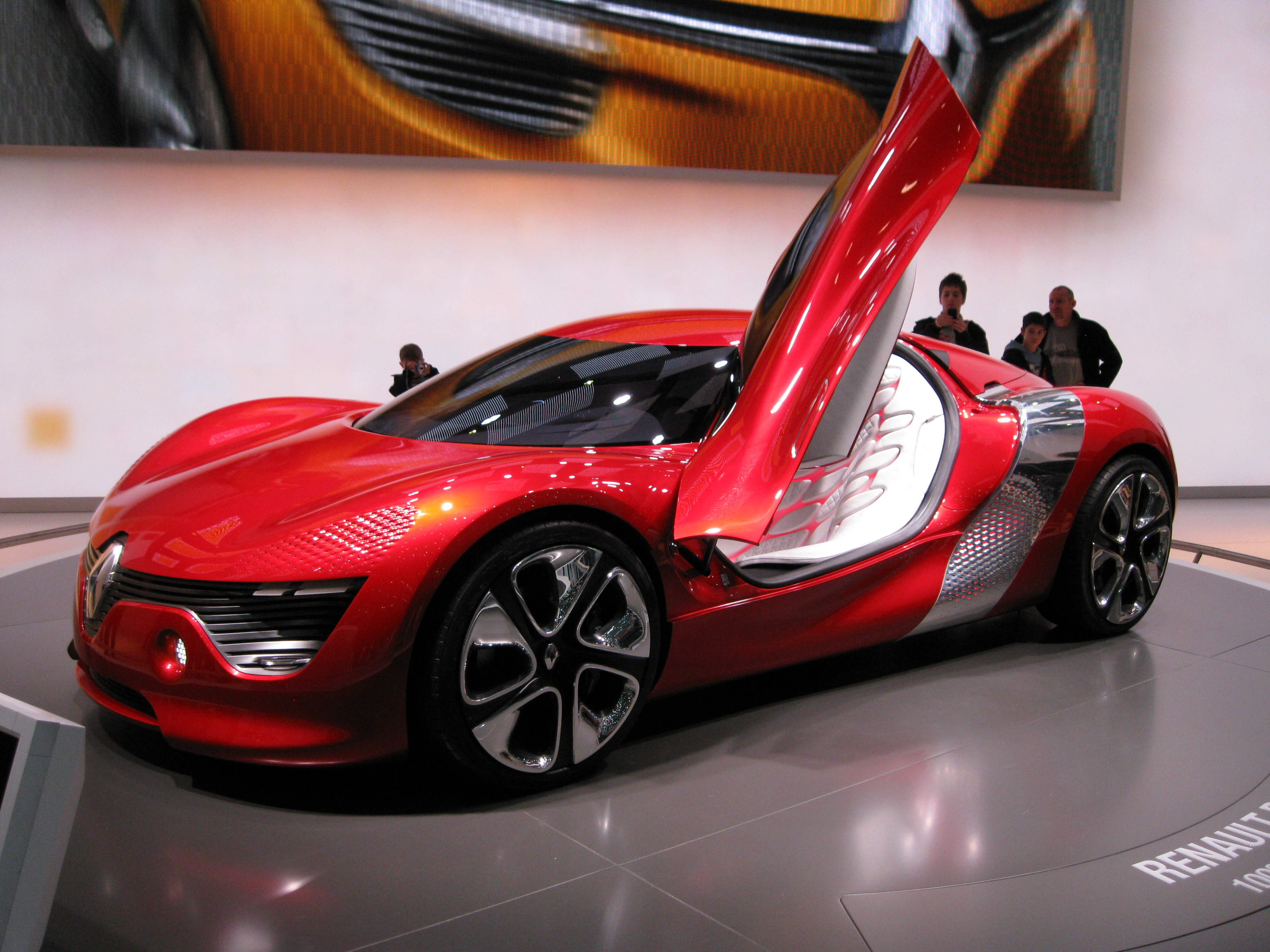 Geneva Motor Show 2011